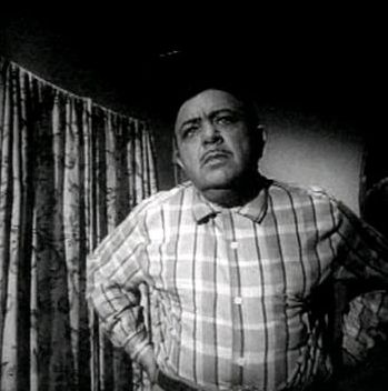 Screenshot of Akim Tamiroff from the trailer for the film Touch of Evil